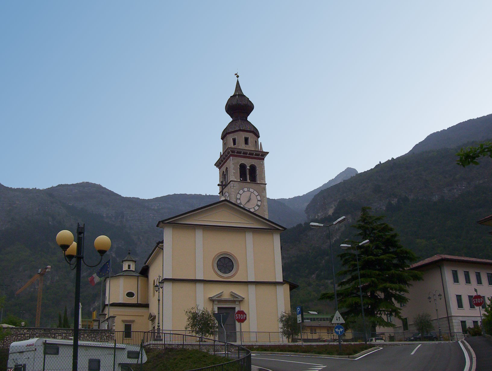 the church of Sant'Agata in Besenello, Trento, Italy